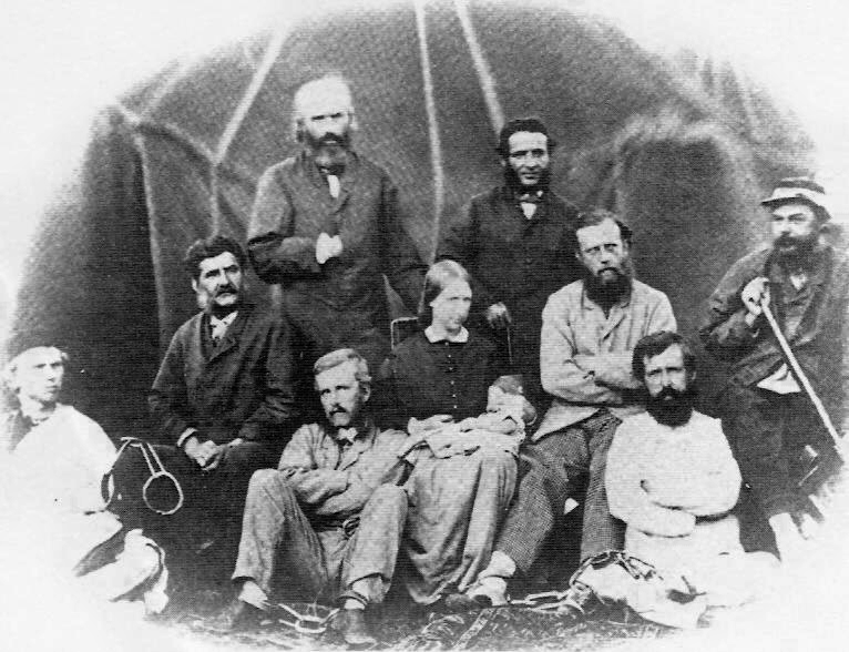 Prisoners of Tewodros II in Magdala, 1868 First row (standing), from left to right : Henry Stern (a missionary) and Mr Rosenthal. Middle row (seating), from left to right : Hormuzd Rassam (envoy sent to negotiate the release the prisoners), Mrs Rosenthal and her child, Blanc and Capitain Cameron (the British consul). Lower row (on the floor), from left to right : Kerans, Prideaux and Pietro.